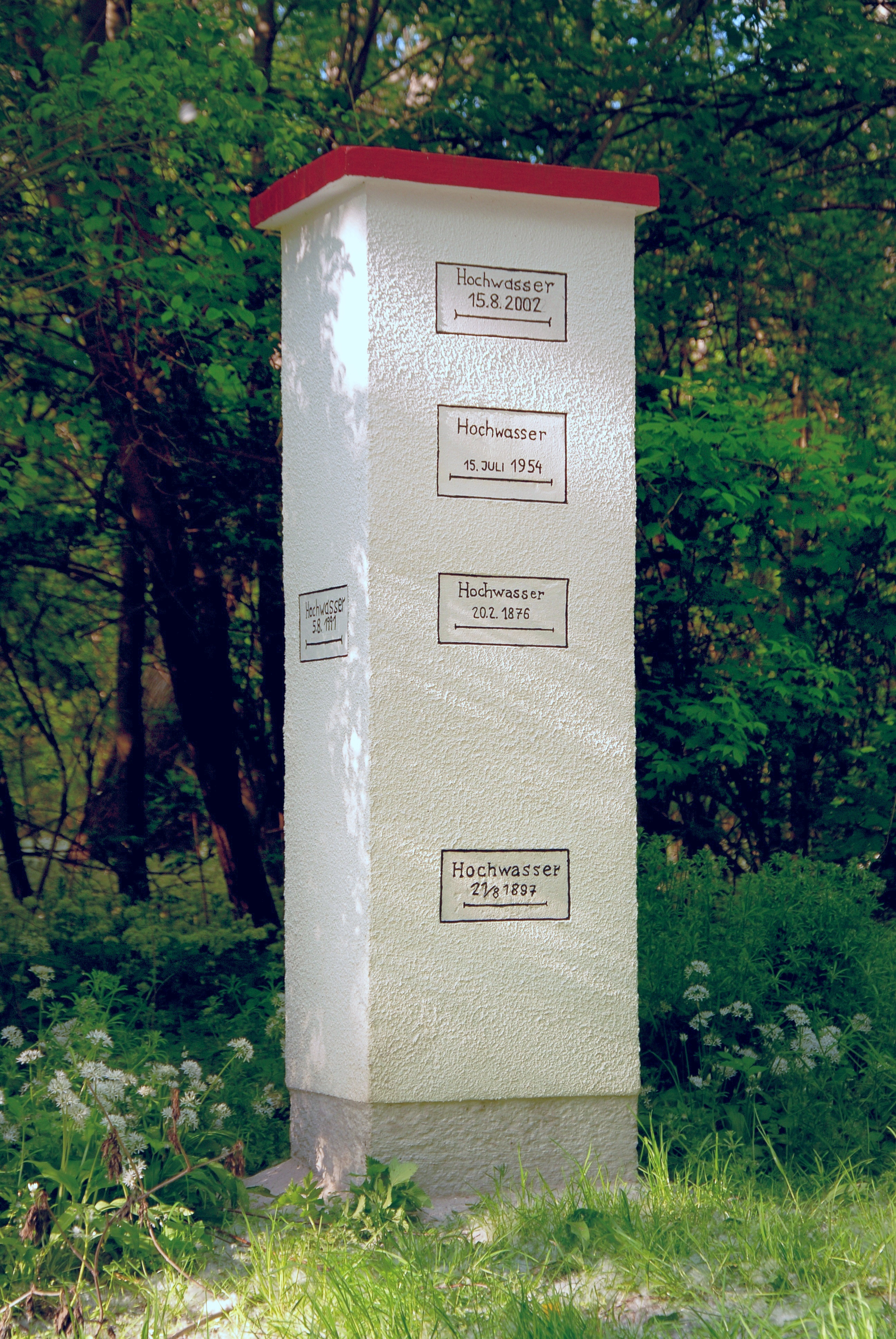 High Water Mark of the Danube, Stopfenreuth floodplain forest, Lower Austria